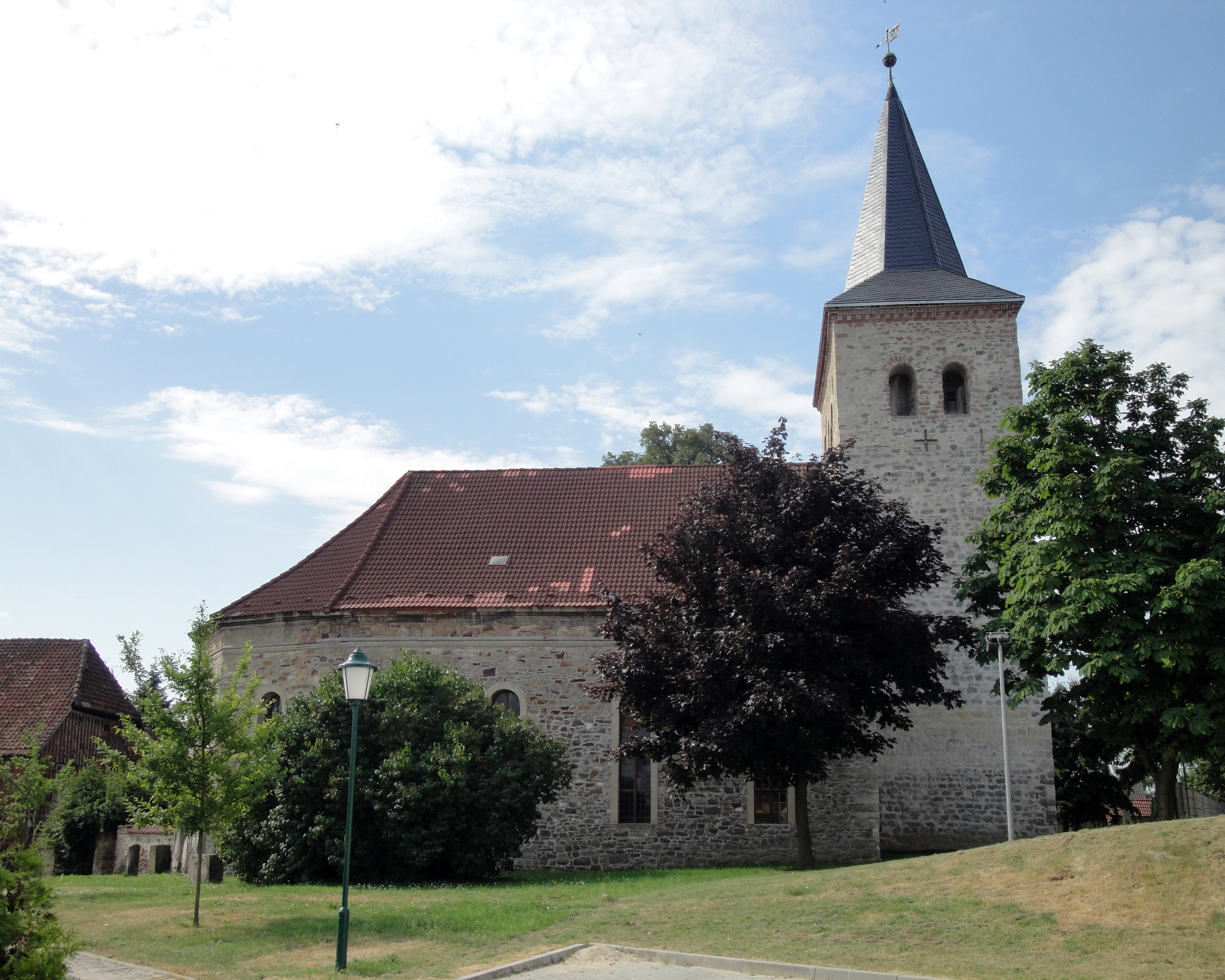 Church St. Christophorus in Wellen, Höhe Börde, Germany